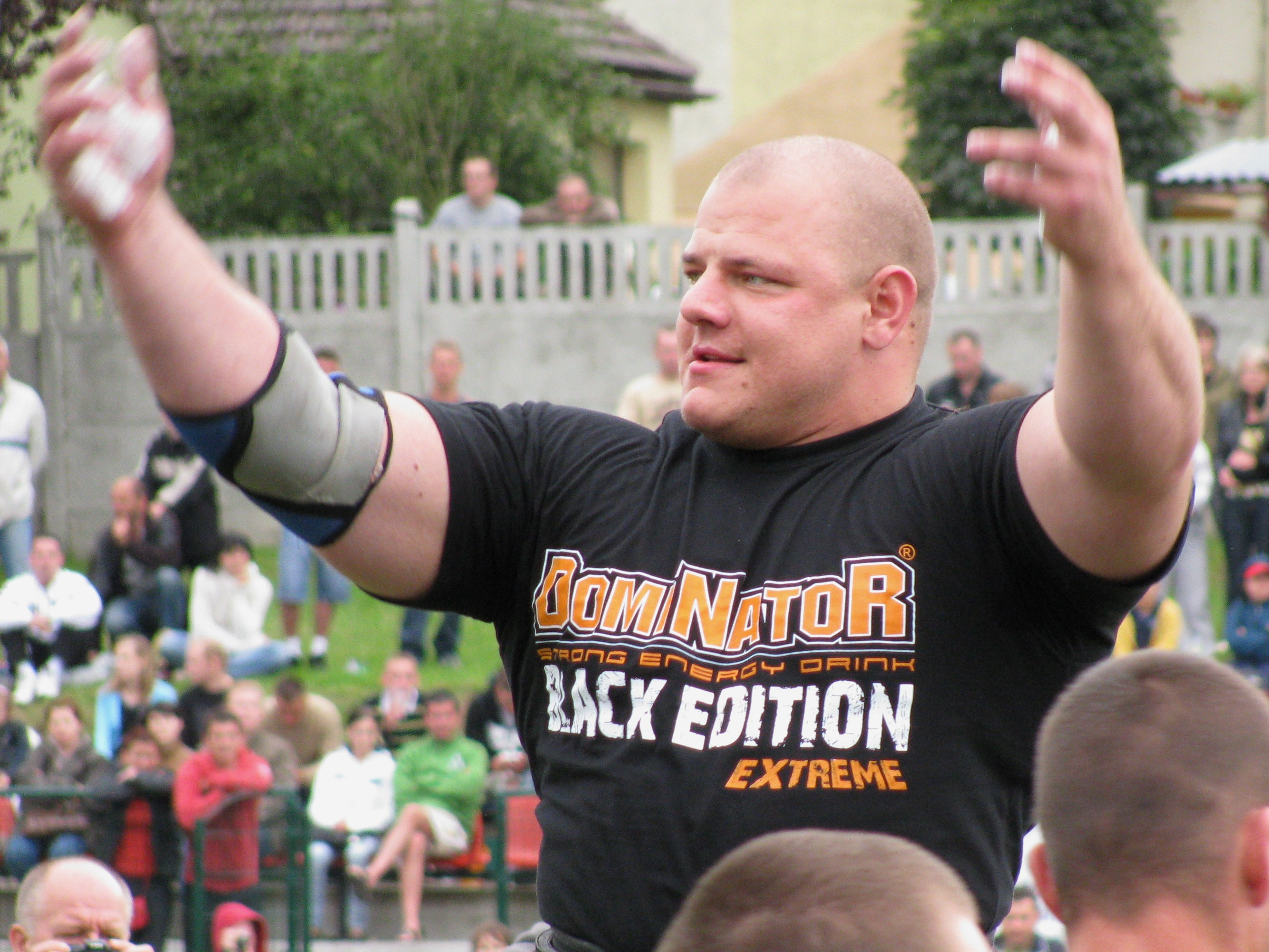 Tomasz Kowal - a strength athlete from Poland.